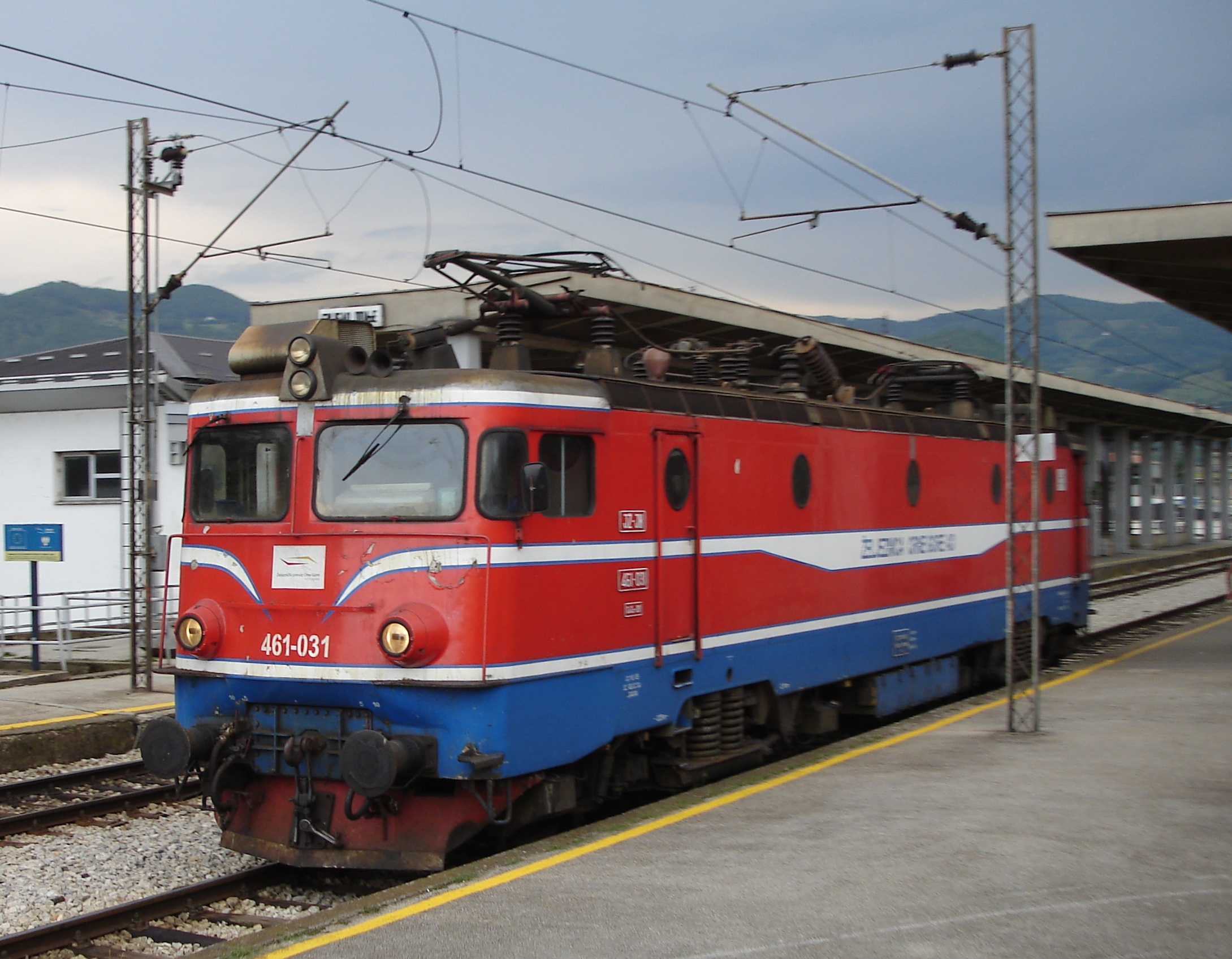 ZCG 461-031 at Bijelo Polje in Montenegro